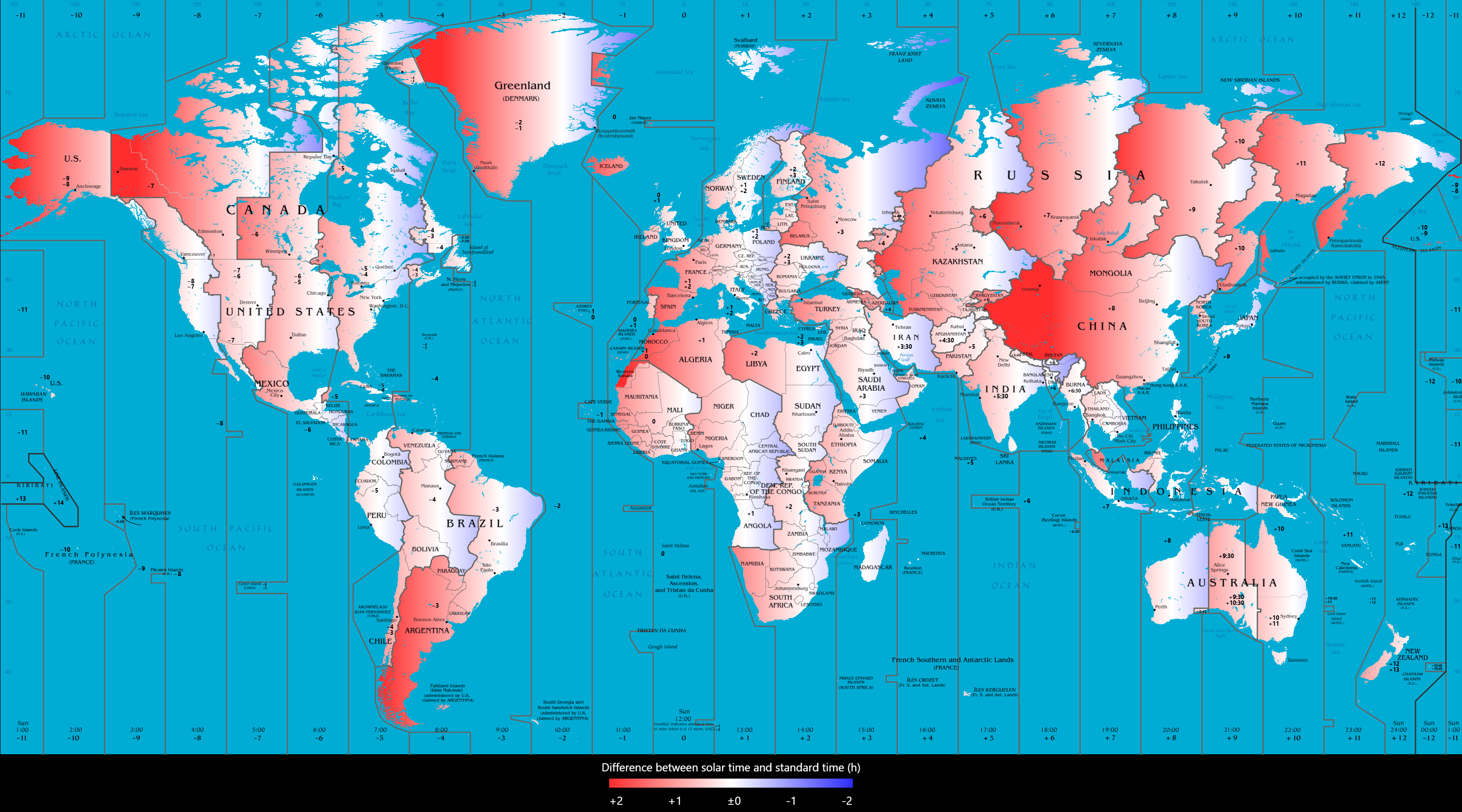 It's a Solar Time Vs Standard Time Map of Timezones in the World.